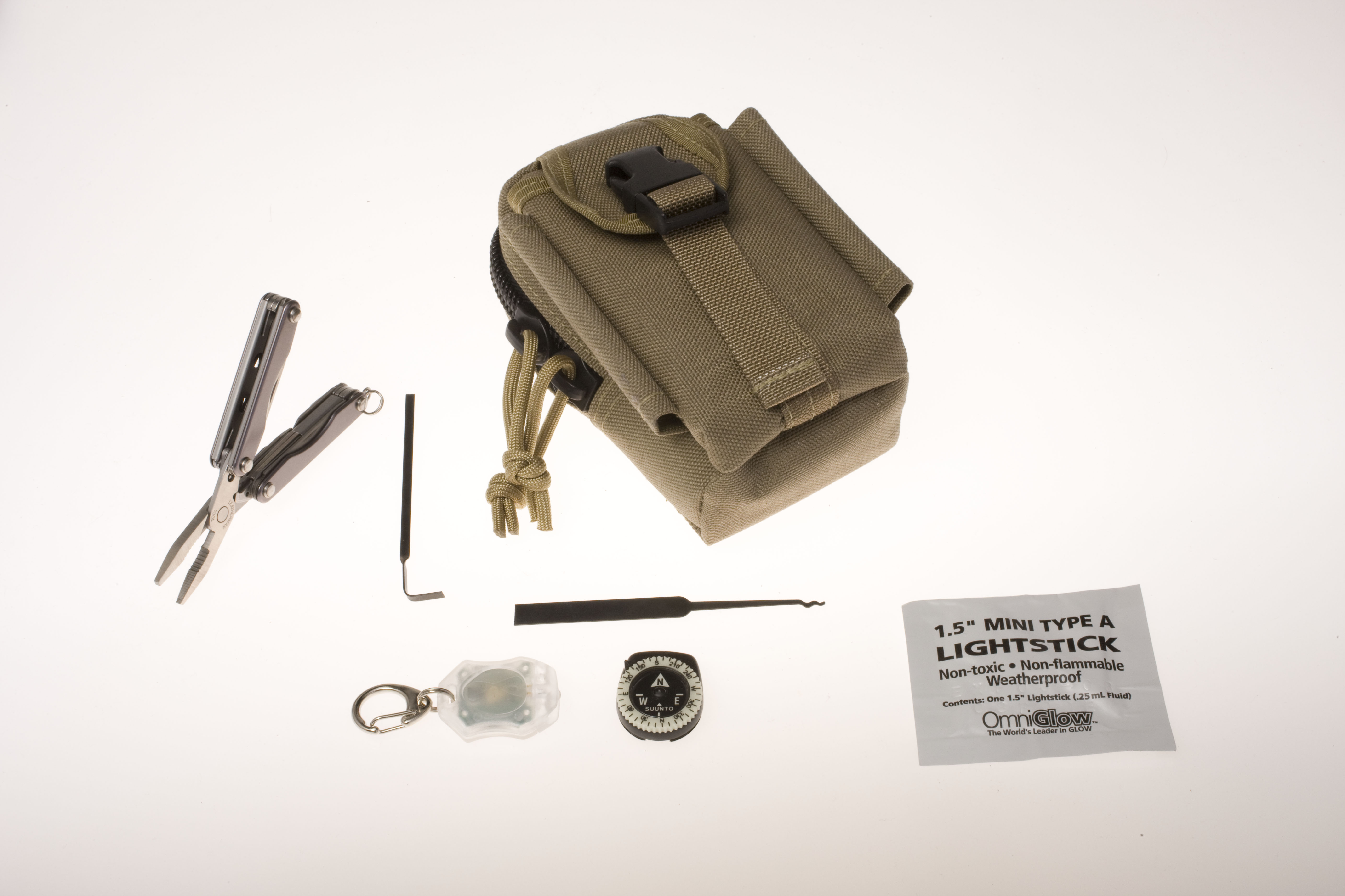 Designed for use by special operations personnel, this kit contains a number of survival tools, including a diamond wire to cut metal, fishing equipment, a ceramic blade, a can opener, lock picks and a mini-Leatherman tool. For more information on CIA history and this artifact please visit